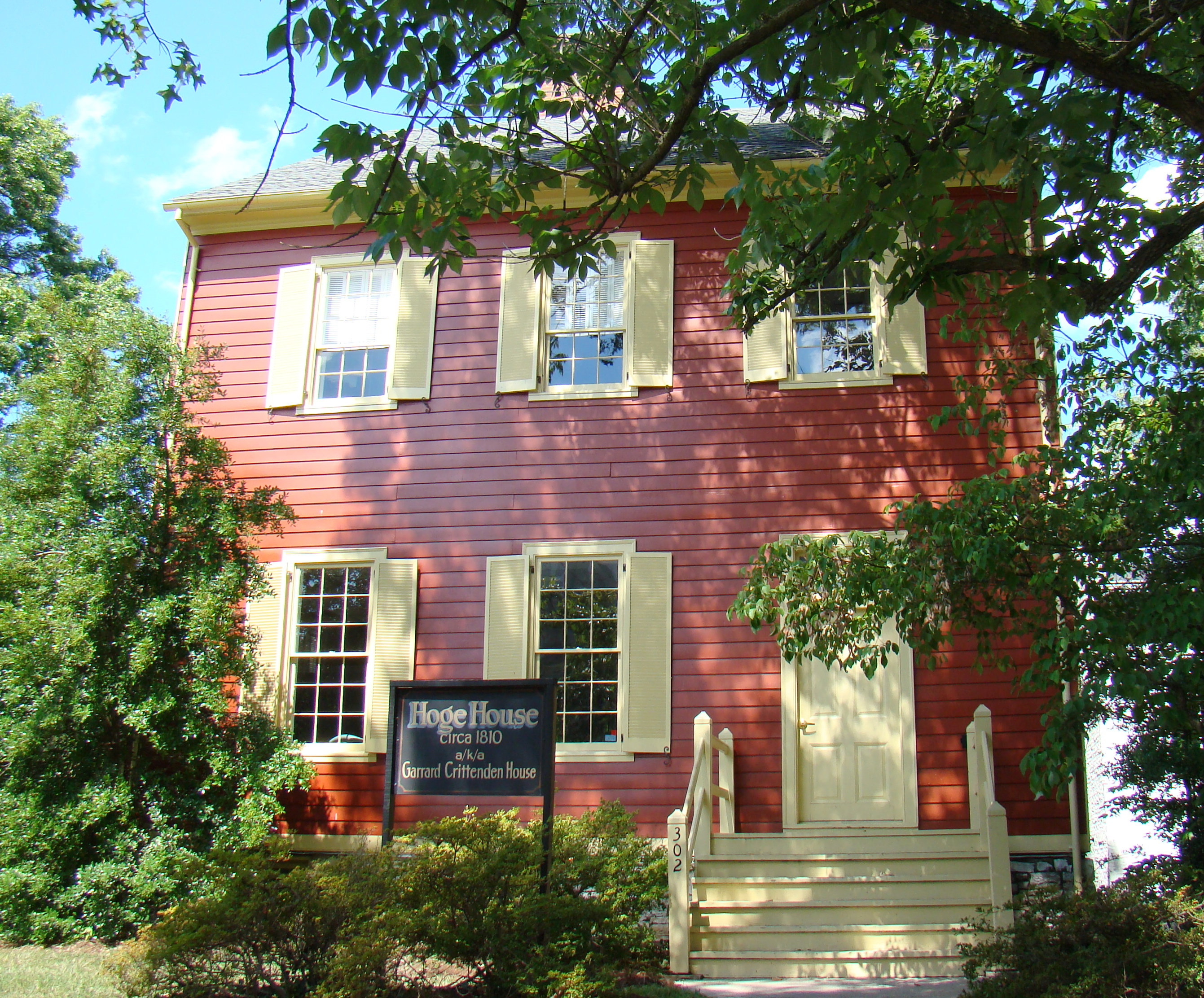 The Crittenden-Garrad House, also called the Hoge House, is located in the Corner in Celebrities Historic District in on Wilkinson Street in Frankfort, Kentucky. The property was added to the US National Register of Historic Places in 1971.